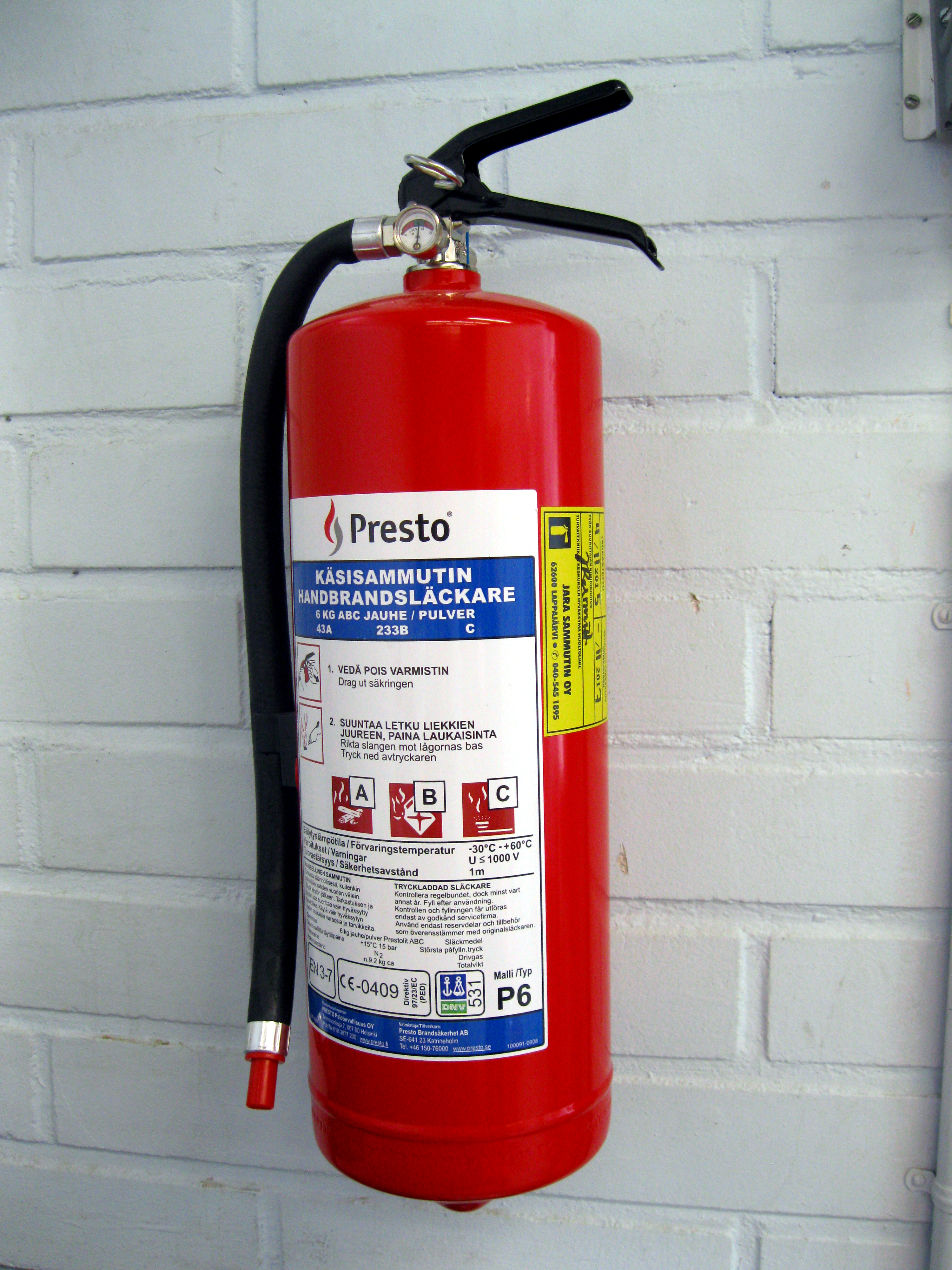 Fire extinguisher by Presto